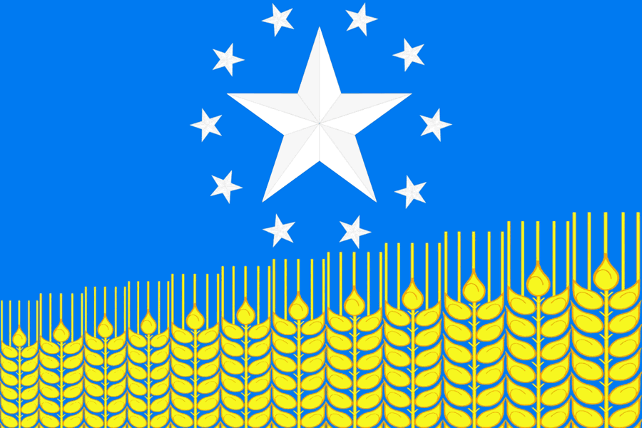 Flag of Srednechuburkskoe rural settlement, Krasnodar Krai, Russia